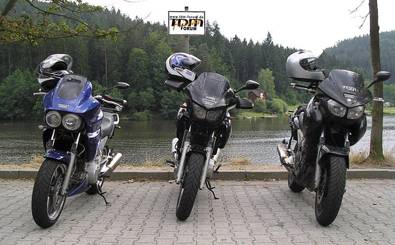 Three Yamaha TDM motorcycles. From left to right: TDM 850 (Mk I), TDM 850 (Mk II), TDM 900 (Mk III).